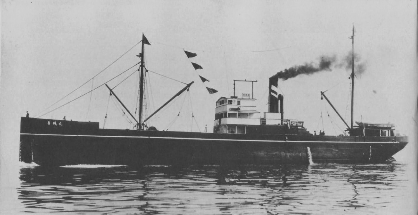 Amagasaki Line (Amagasaki Kisen-bu) "Akagi Maru", Successor of the Japanese gunboat "Akagi ".